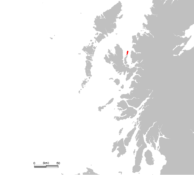 UK Rona.PNG (Scotland, Hebrides)